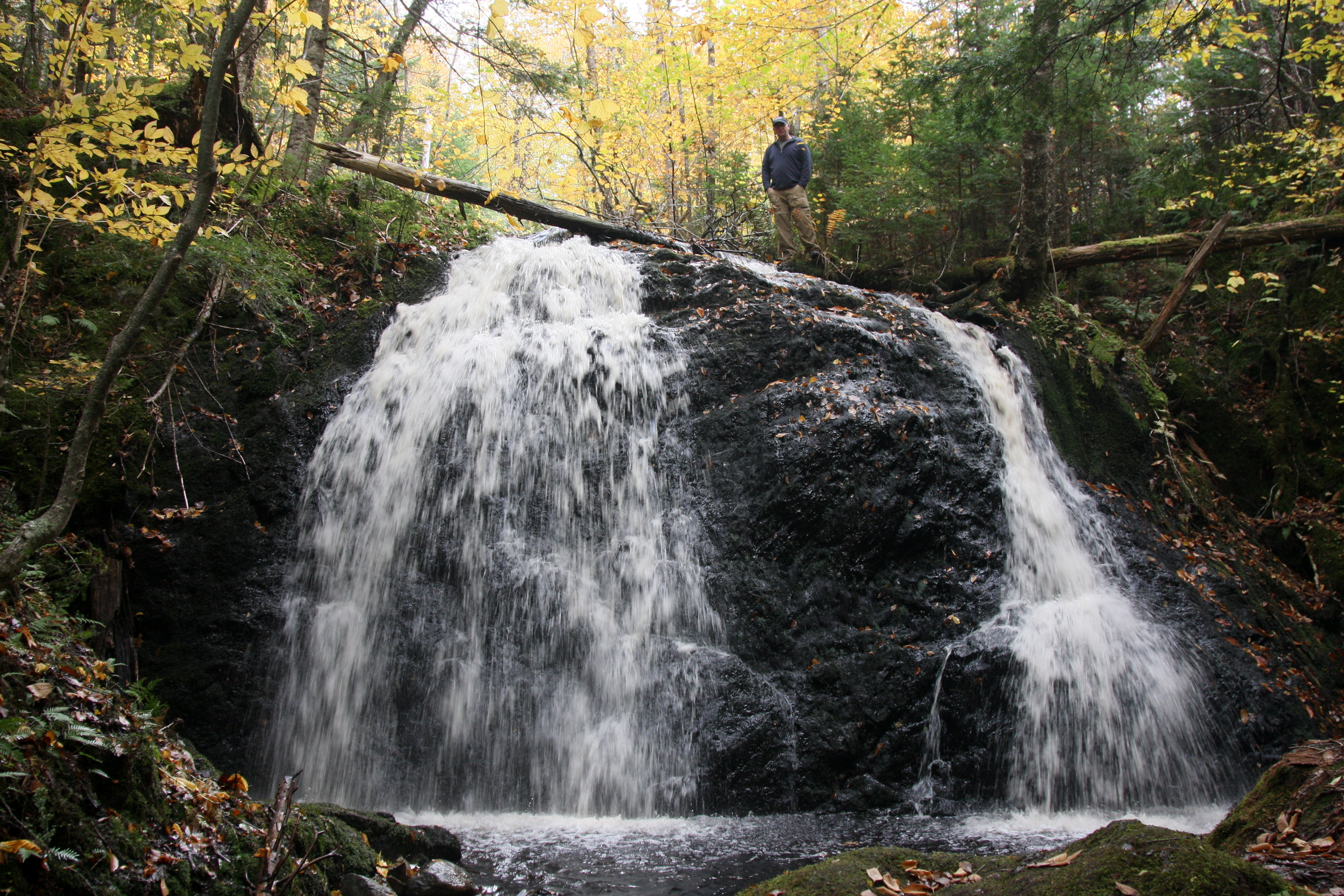 The Lower Falls of three, Devil’s Hill Falls, a waterfall on Devils Hill on Cape Breton Island, in Nova Scotia, Canada. Oral tradition suggests Devil's Hill Road, the road that runs along the side of the stream that becomes the falls, was named because a gentleman met the Devil on his way home from Mira Ferry one night after a dance in the late 19th century. There were quite a few farms along the road that went to the Mira, a few of them owned by German families.